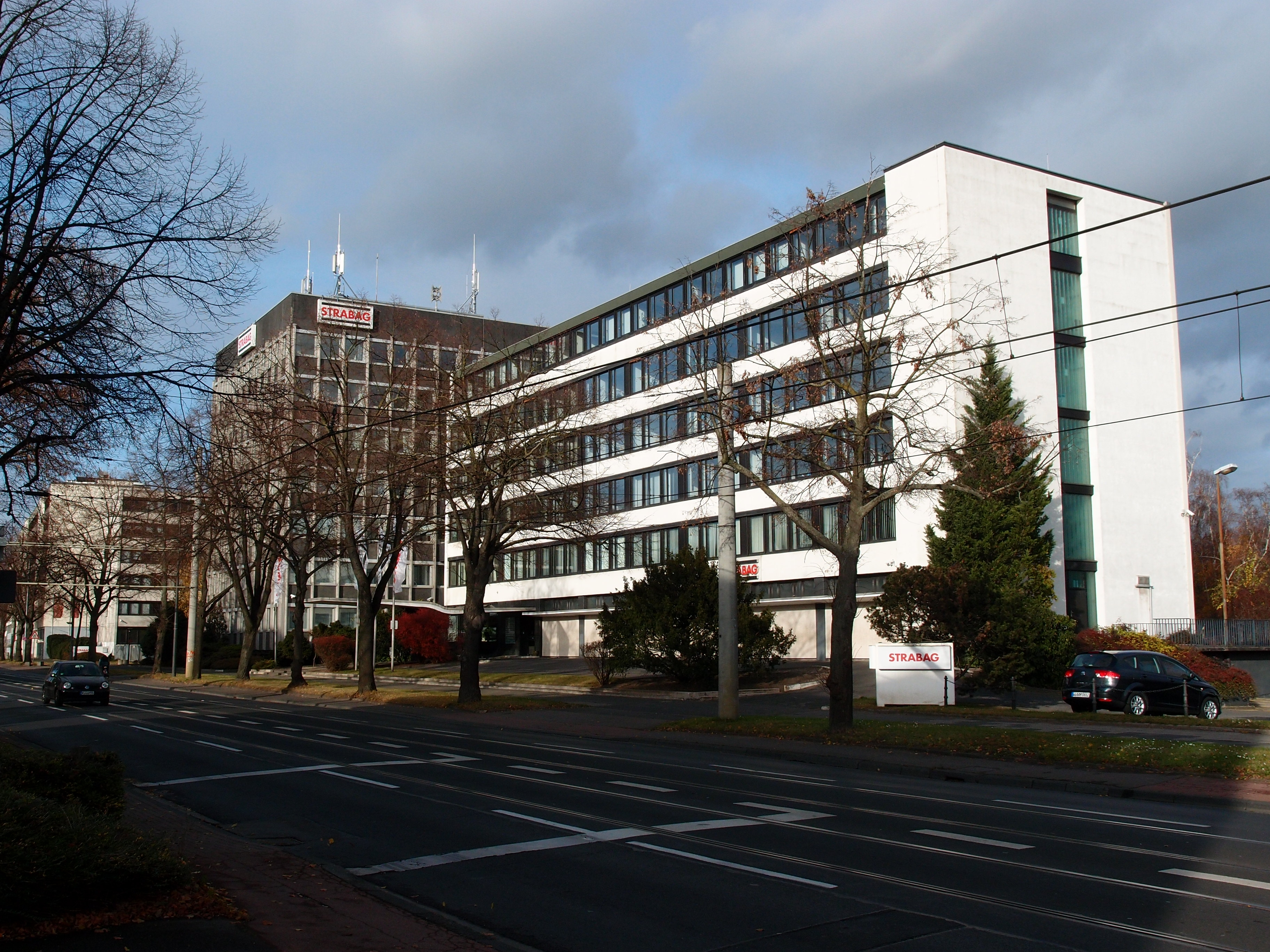 Köln-Deutz, Hauptverwaltung der STRABAG Deutschland Datum: 26.11.2011 Urheber: M. Pfeiffer alias Gordito1869 Quelle: Privates Fotoarchiv des Urheber